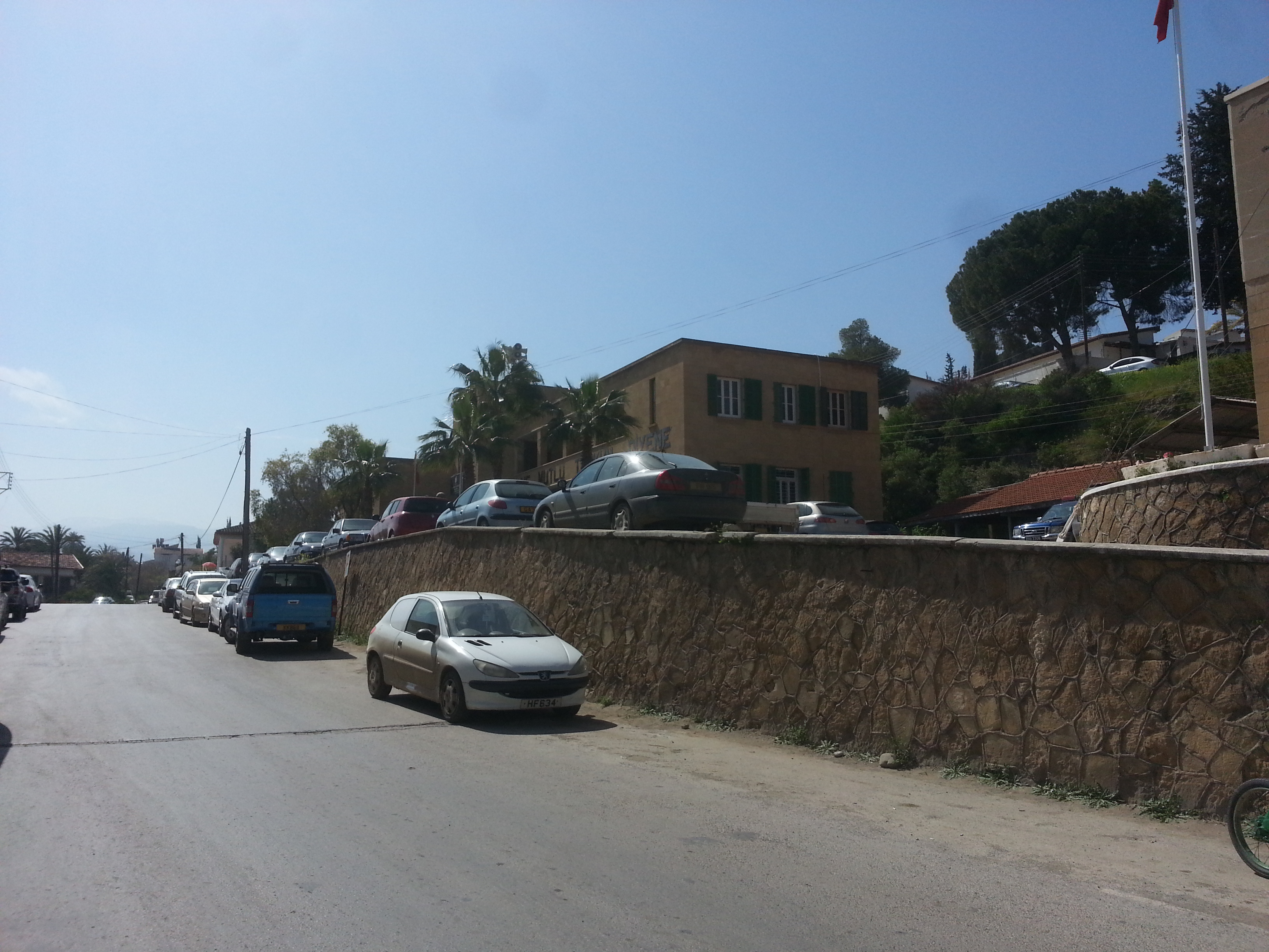 The administrative building of Lefke, Northern Cyprus